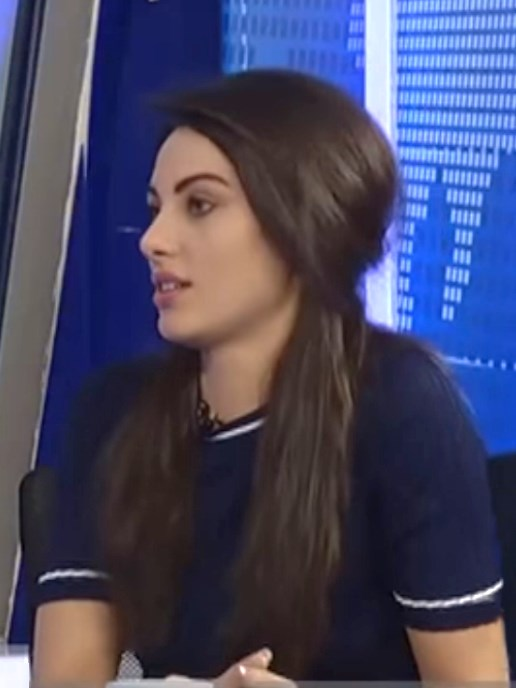 Turkish actress Tuvana Türkay